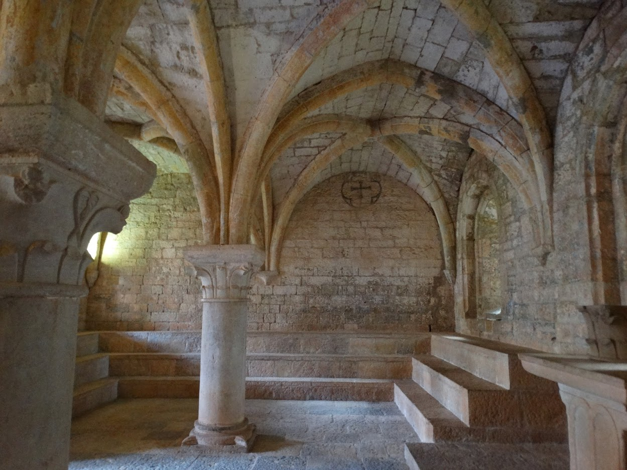 Abbaye de Thoronet,France (Provance)